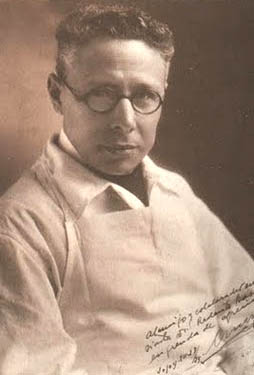 Argentine scientist Salvador Mazza.